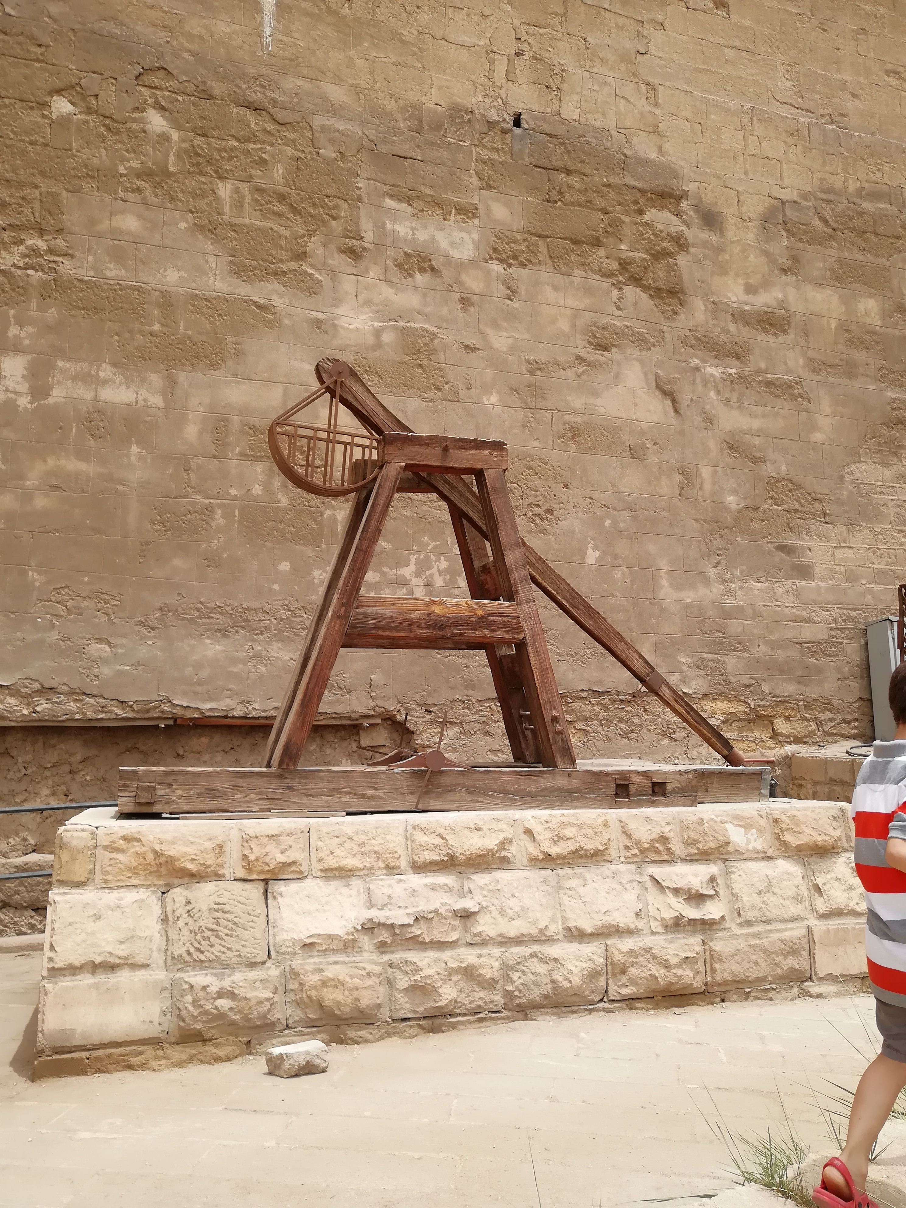 Cairo Citadel - Mangonel منجنيق